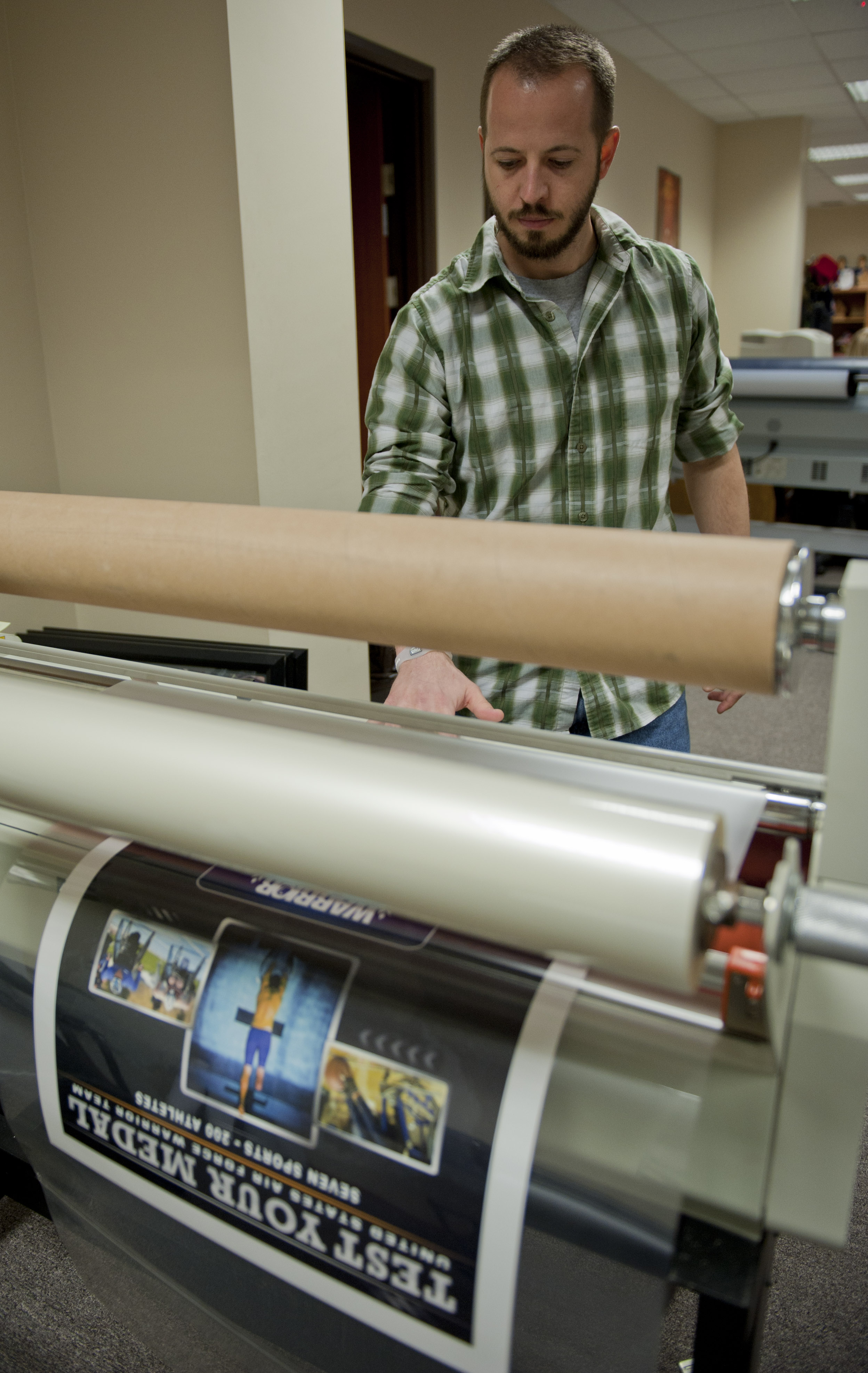 JT McKeen, 39th Force Support Squadron marketing graphic artist, laminates a poster Feb. 29, 2012, at Incirlik Air Base, Turkey. The marketing office creates and prints posters, pamphlets, and other showcase items for the Incirlik community. Marketing also runs the 39th FSS website, blog and Facebook page, sells advertising, and promotes base events.